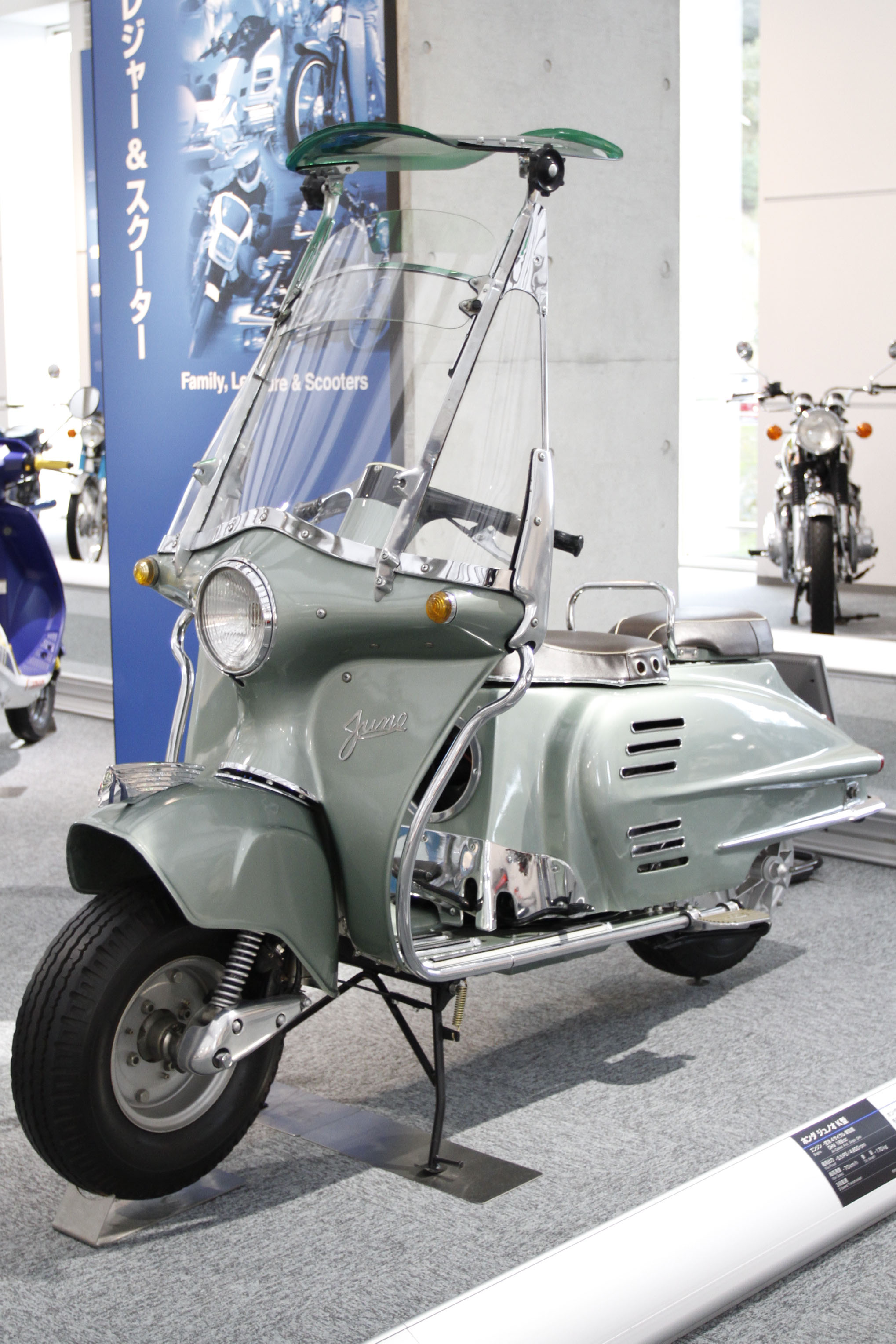 HONDA JUNO K photographed in Honda Collection Hall.